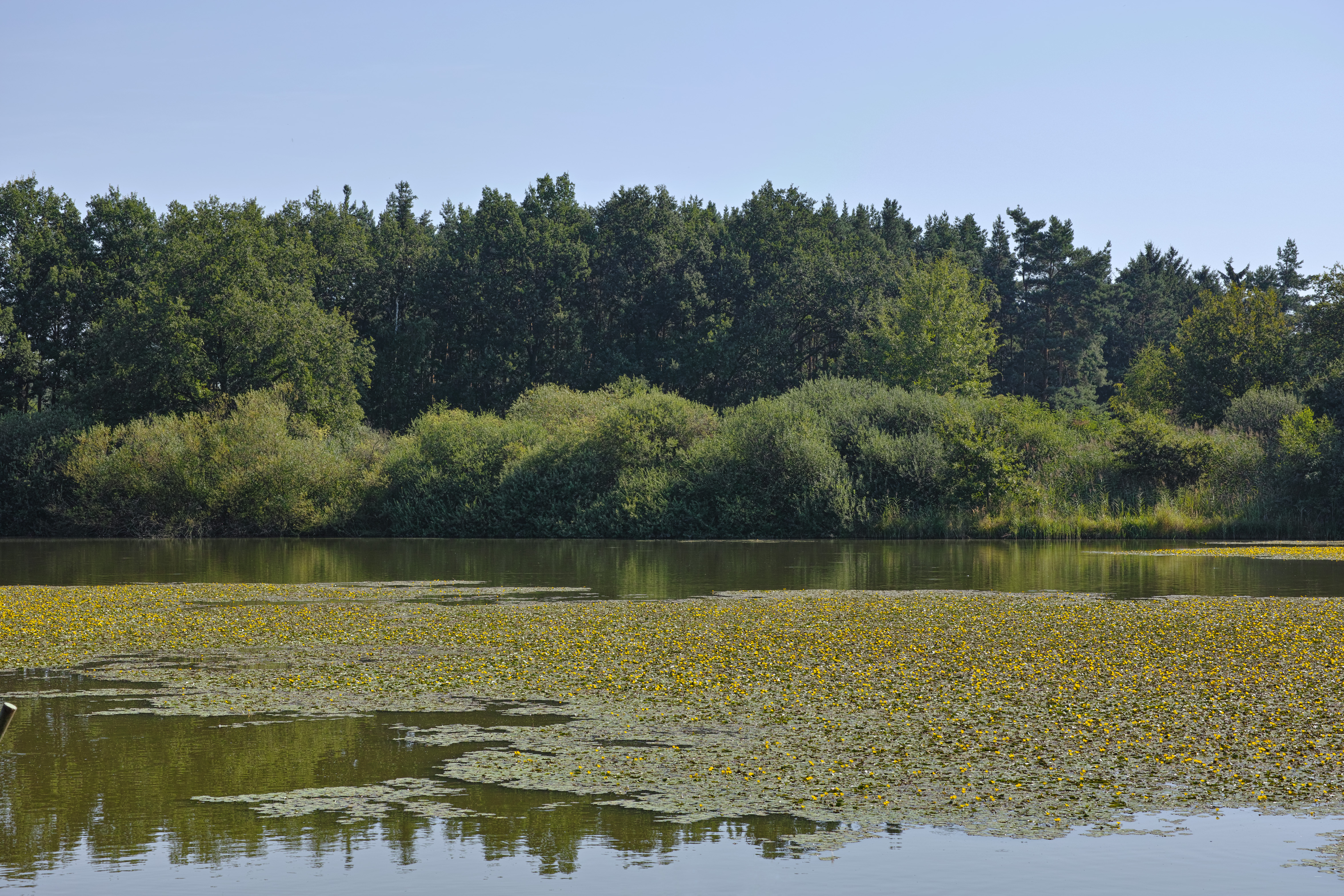 Nymphoides peltata, Šnejdlík pond, natural reserve Vrbenské rybníky near České Budějovice, Czech republic